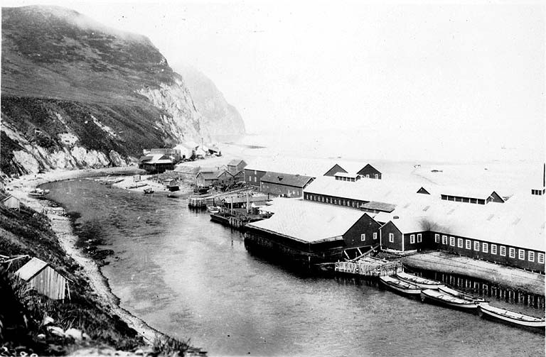 In Folder 17 Subjects (LCTGM): Harbors--Alaska--Karluk Subjects (LCSH): Karluk (Alaska); Karluk (Alaska)--Buildings, structures, etc.